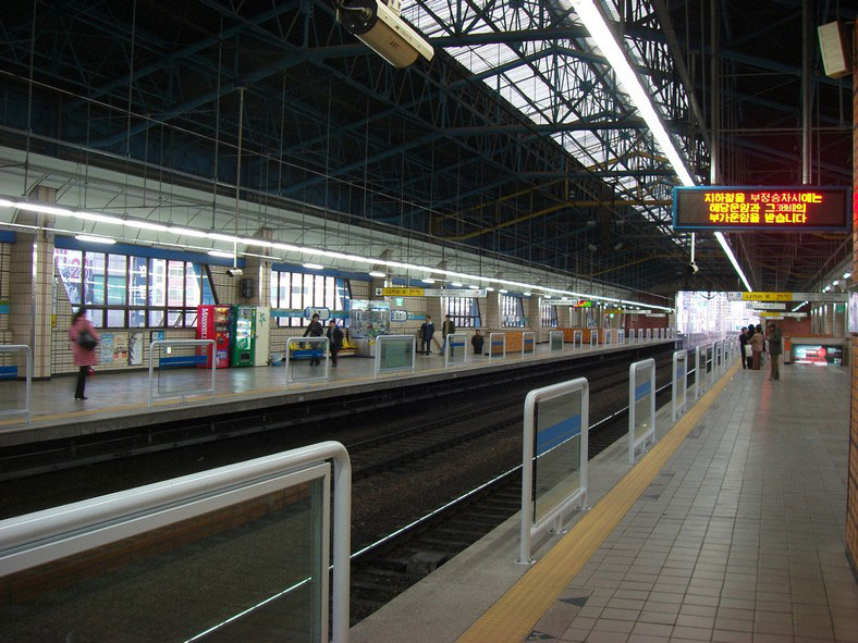 Nowon Station platform